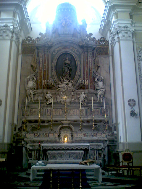 Church of Concezione a Montecalvario (Naples)